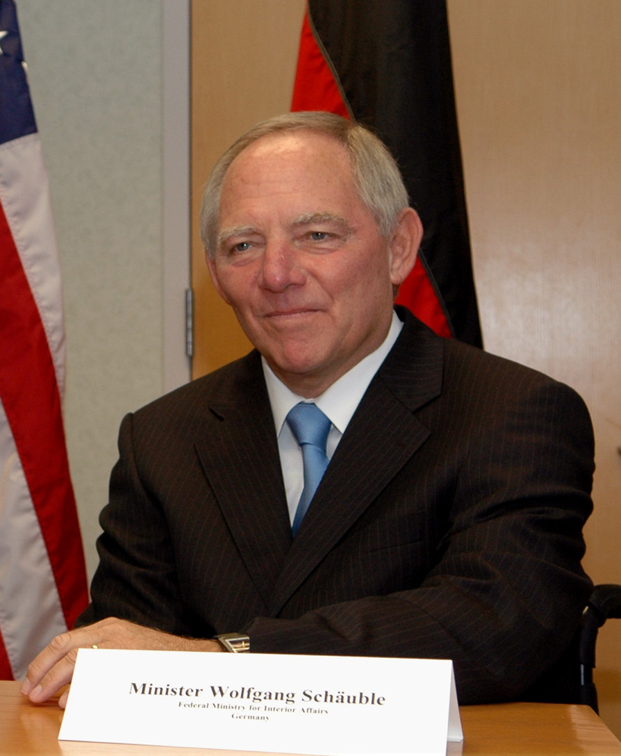 Wolfgang Schäuble, the German Government's Minister of the Interior.